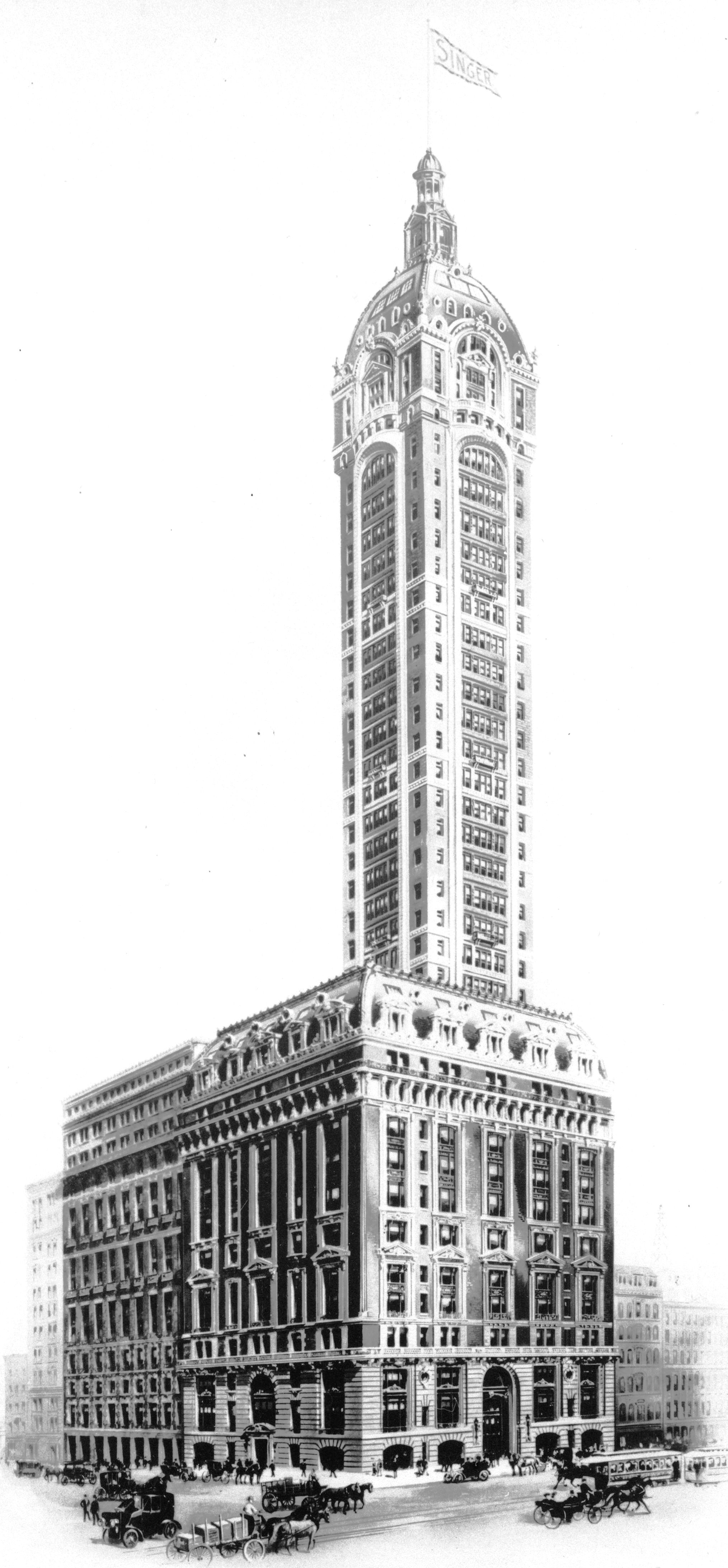 Former Singer Building in New York City - VIEW FROM SOUTHEAST